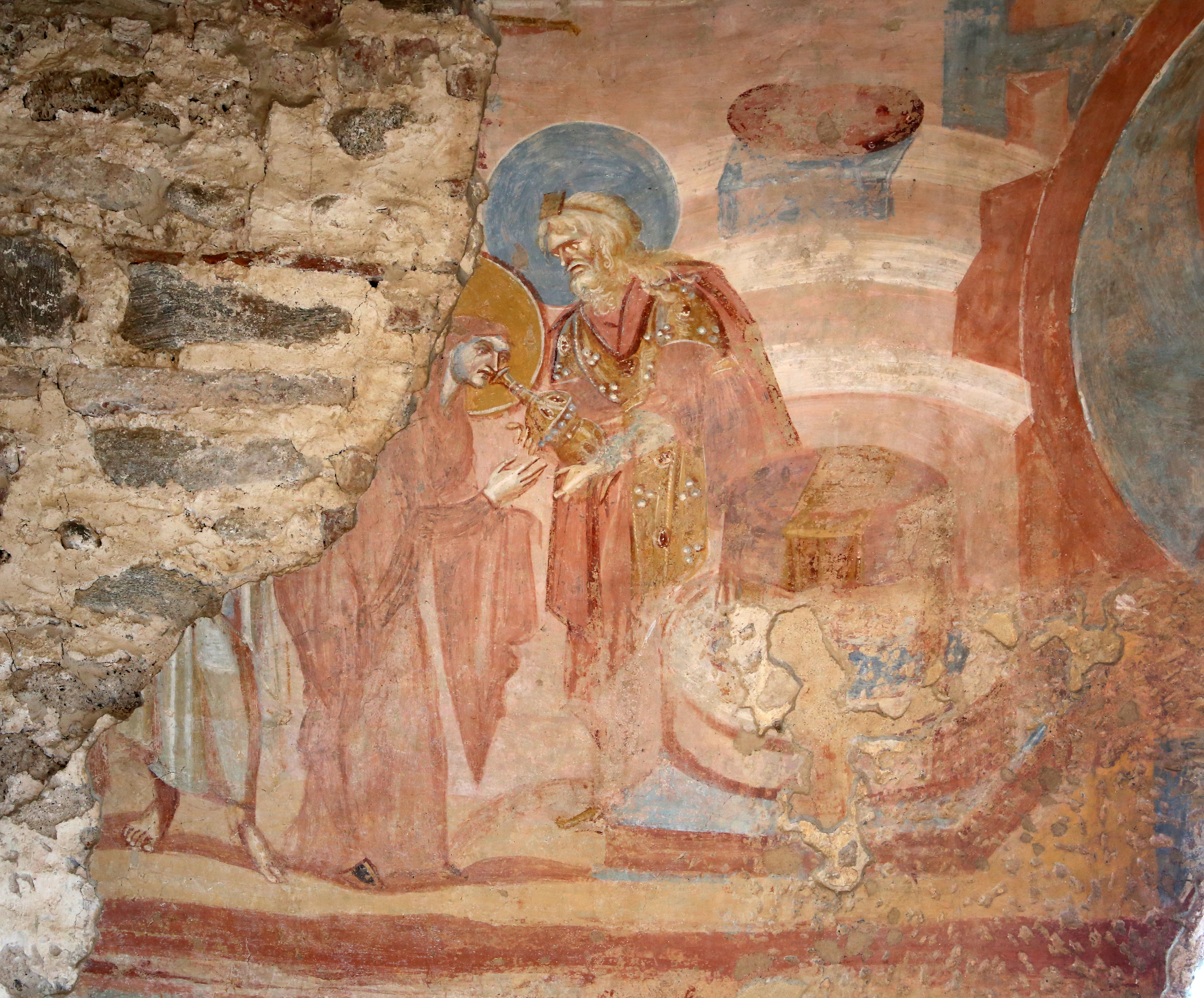 Santa Maria foris portas in Castelseprio